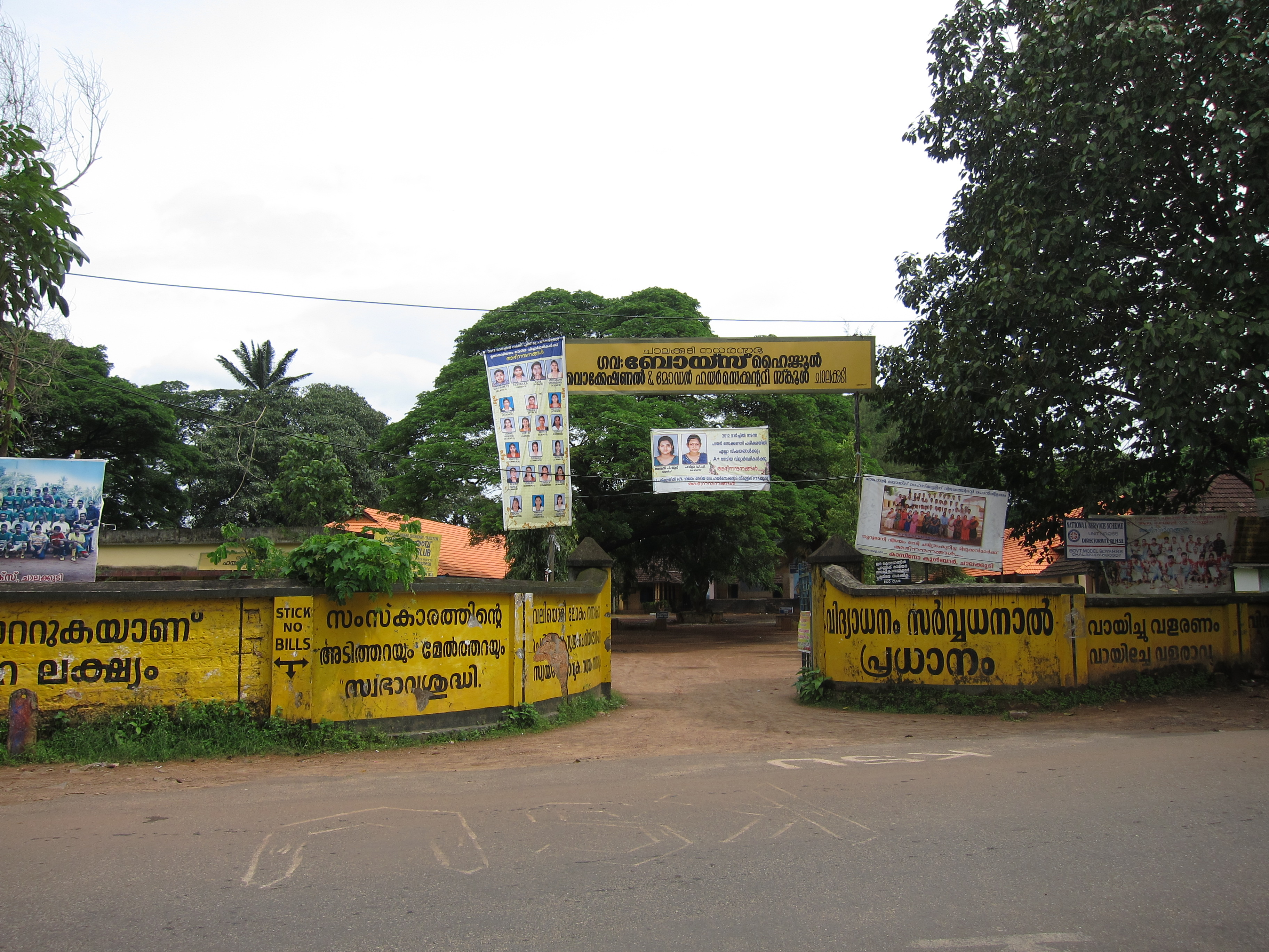 Govt. Boys High School , Vocational Model Hr. Sec. School, Chalakudy